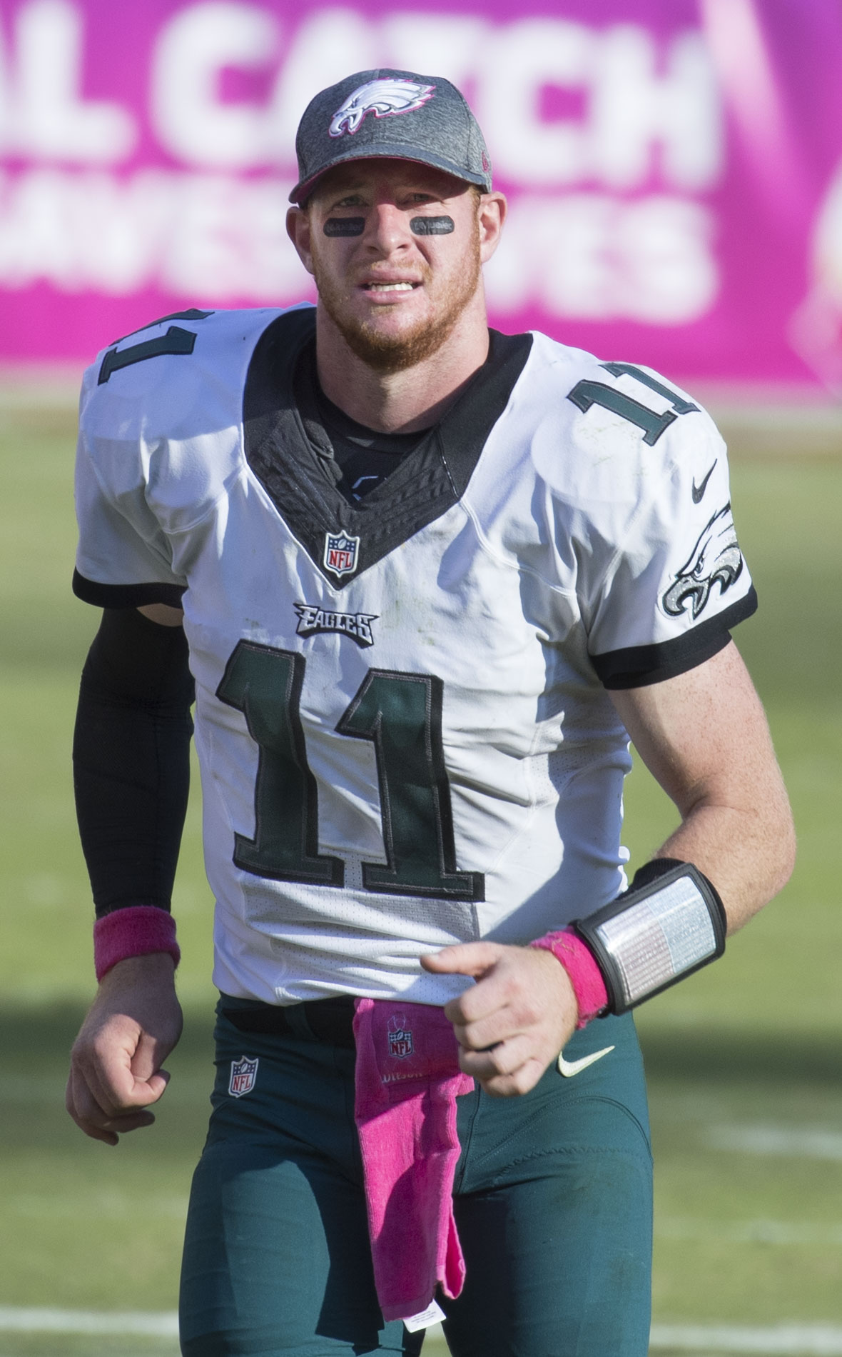 Philadelphia Eagles quarterback, Carson Wentz, playing against the Washington Redskins on October 16, 2016.